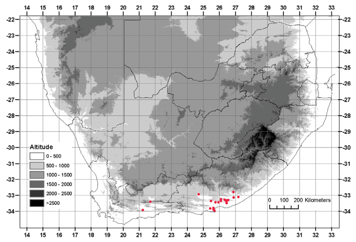 Known distribution of Albuca bakeri Mart.-Azorín & M.B. Crespo.